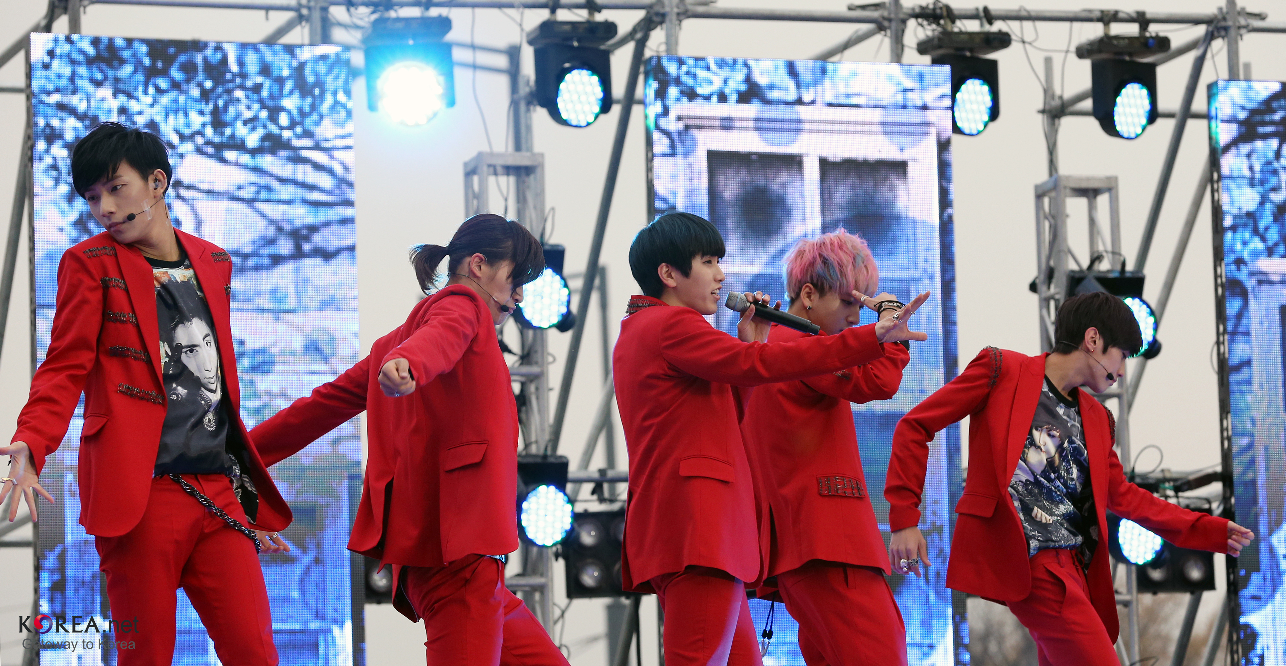 SBS Inkigayo. B1A4 '걸어본다'. Gwanghwamun, Seoul, Korea